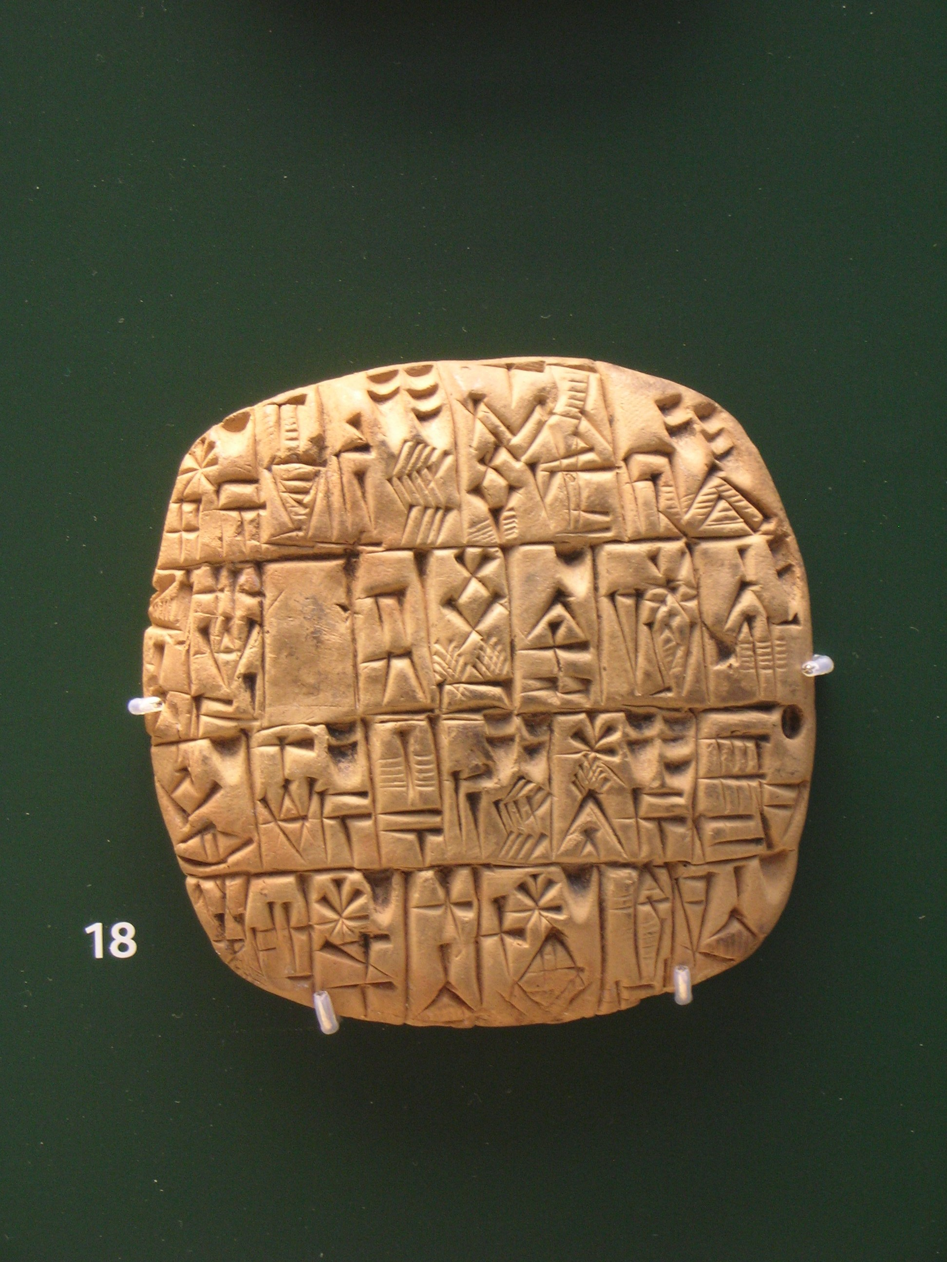 Summary account of silver for the govenor written in Sumerian Cuneiform on a clay tablet. From Shuruppak or Abu Salabikh, Iraq, circa 2,500 BCE. British Museum, London. BM 15826